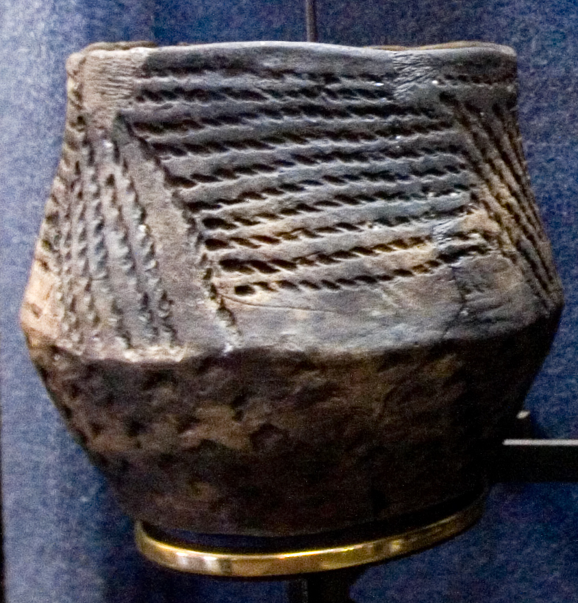 Objects found during excavations